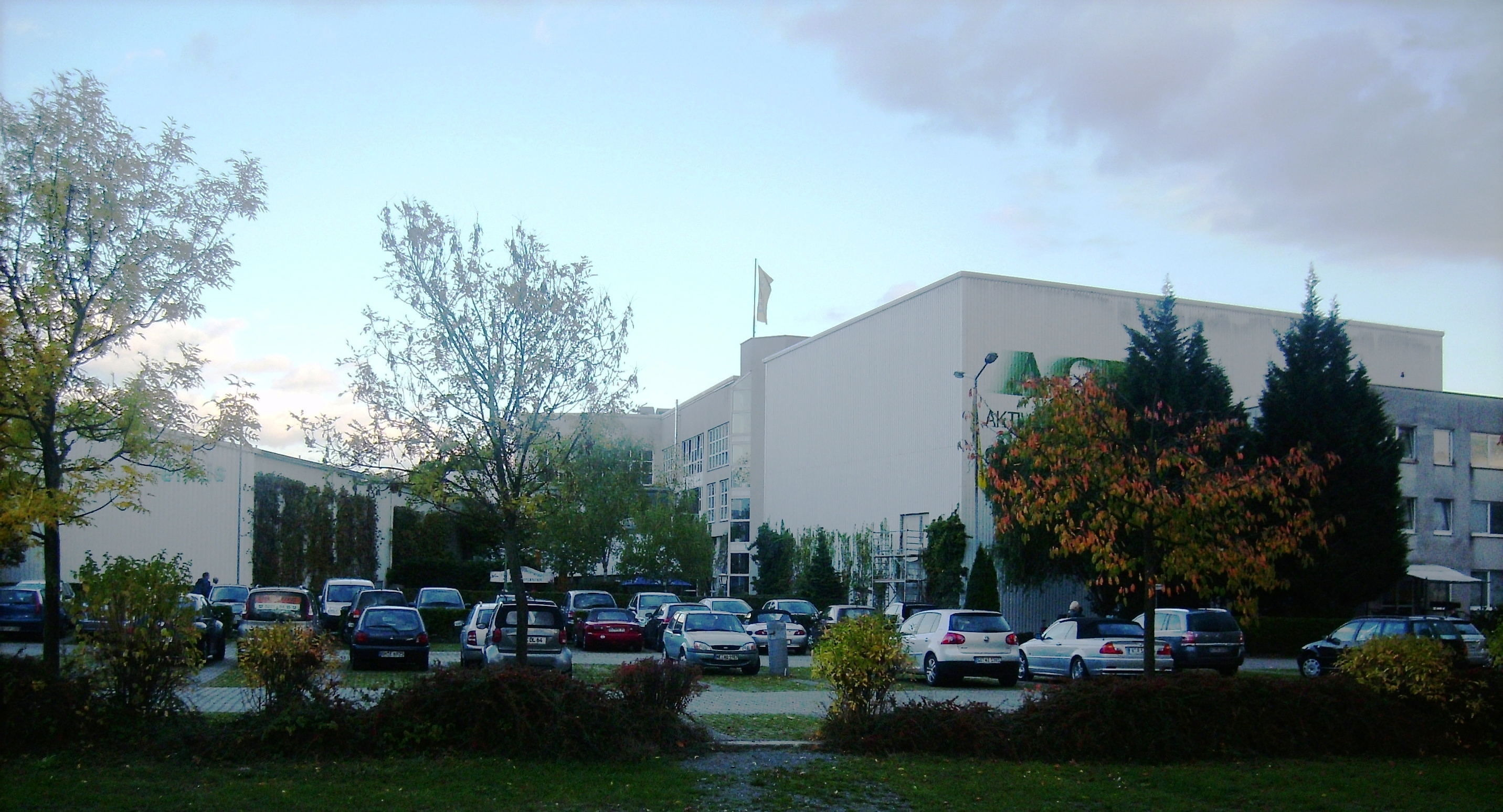 ACR Sportcenter, Cologne-Neubrück